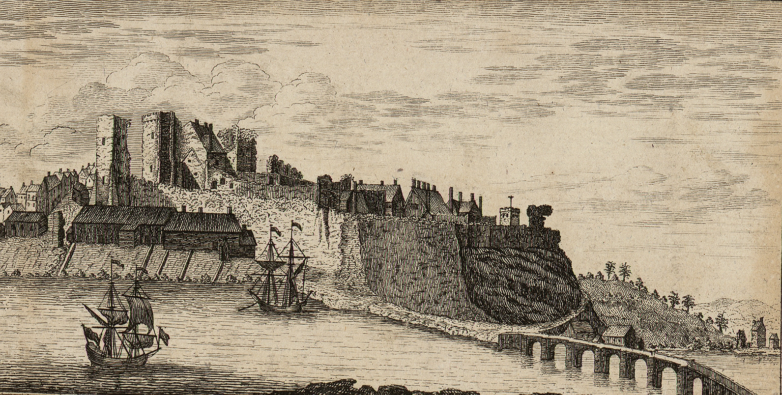 An image from a set of 8 extra-illustrated volumes of A tour in Wales by Thomas Pennant (1726-1798) that chronicle the three journeys he made through Wales between 1773 and 1776. These volumes are unique because they were compiled for Pennant's own library at Downing. This edition was produced in 1781. The volumes include a number of original drawings by Moses Griffiths, Ingleby and other well known artists of the period. Thomas Pennant (1726-1798)